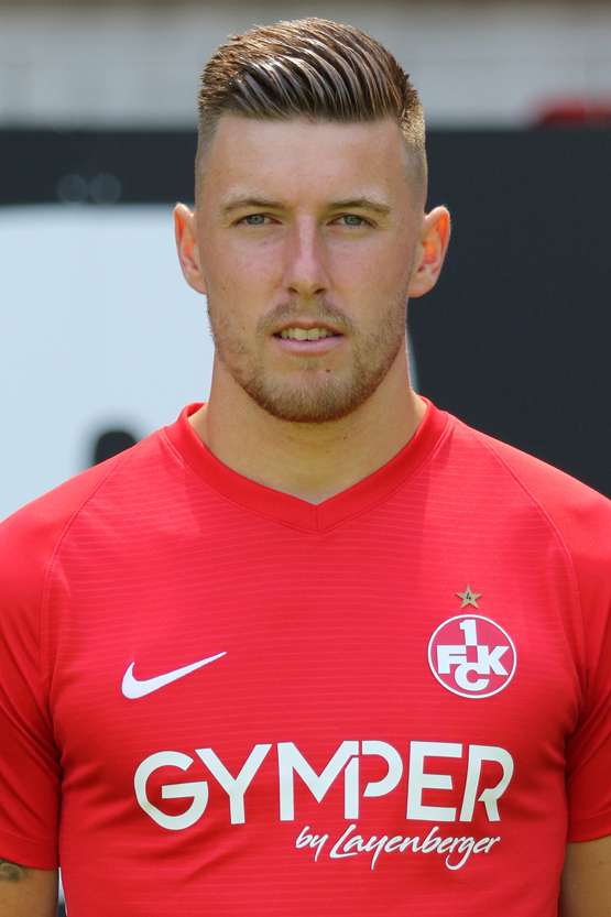 Christian Kühlwetter (Nr. 24)